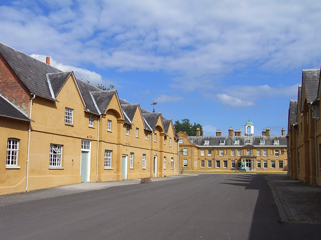 Coachhouse, Stratfield Saye. Showing the 17th/19th century stable block on the northern side of the western approach to Stratfield Saye House. The house itself is in SU7061. See also 1420495.